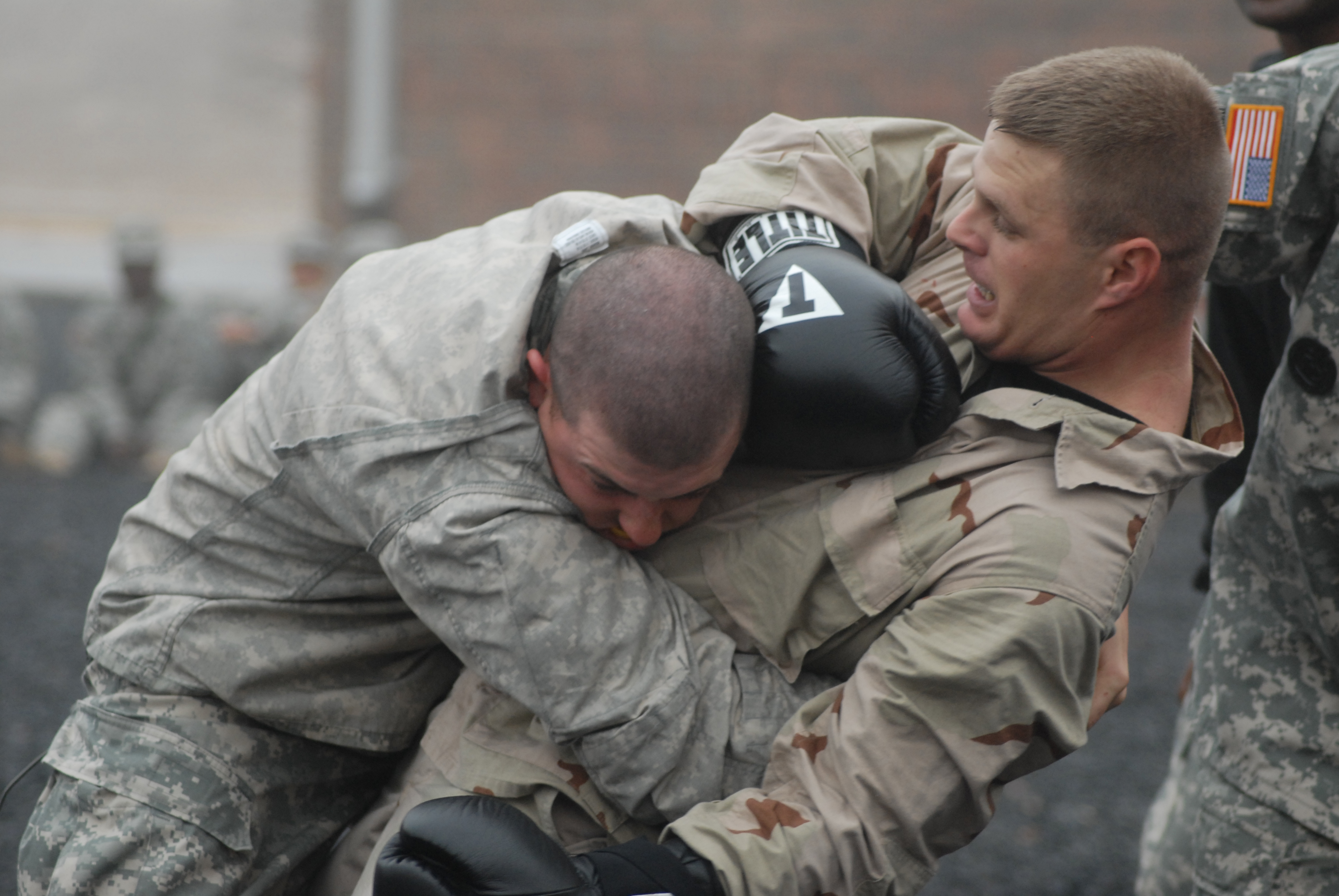 Pvt. Ryan Owen, left, attempts to clinch Staff Sgt. AaronPrice during a one-minute bout of hand-to-hand combat Dec. 16. Owen is one of 32 Basic Combat Training Soldiers in Company F, 2nd Battalion, 39th Infantry Regiment who were certified in Modern Army Combatives. See more at Army.mil